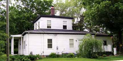 William Burt's wedding-cake house in Macomb County, Washington Township, Michigan William Burt's "wedding cake house"